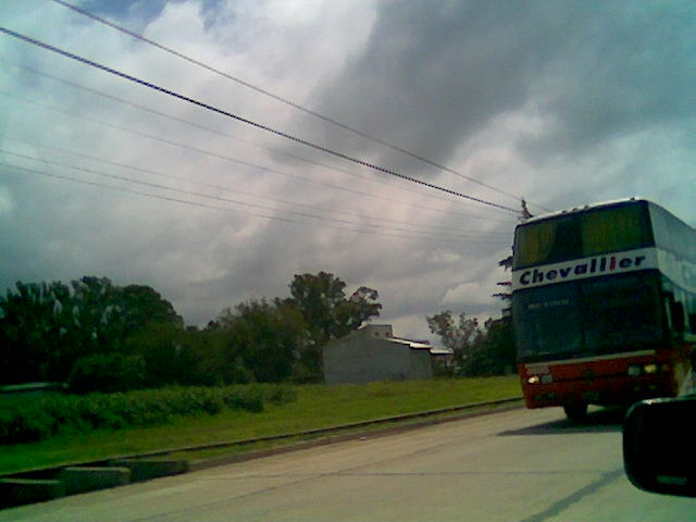 National Route 8, Access to Arias